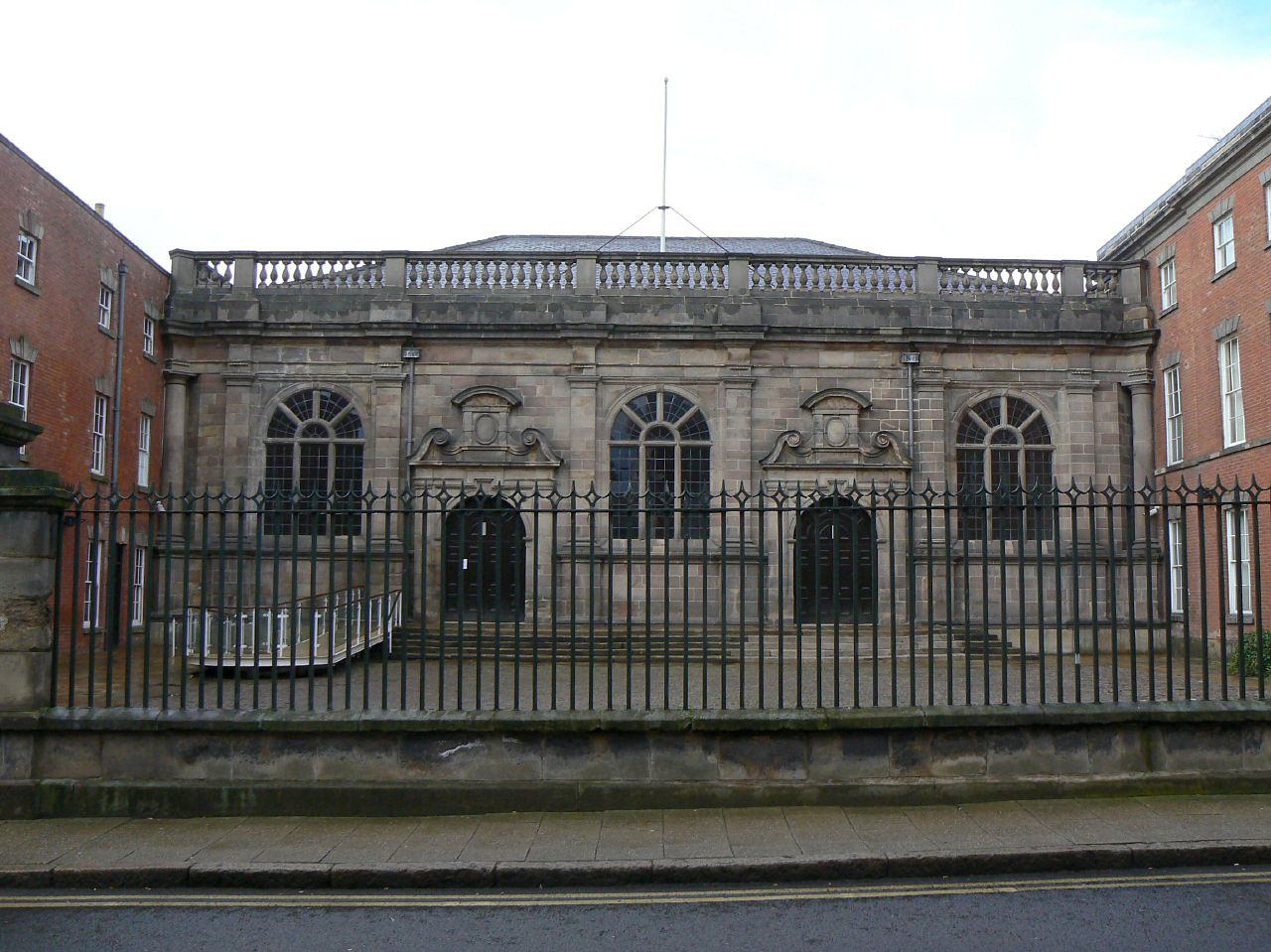 Derby Magistrates' Court